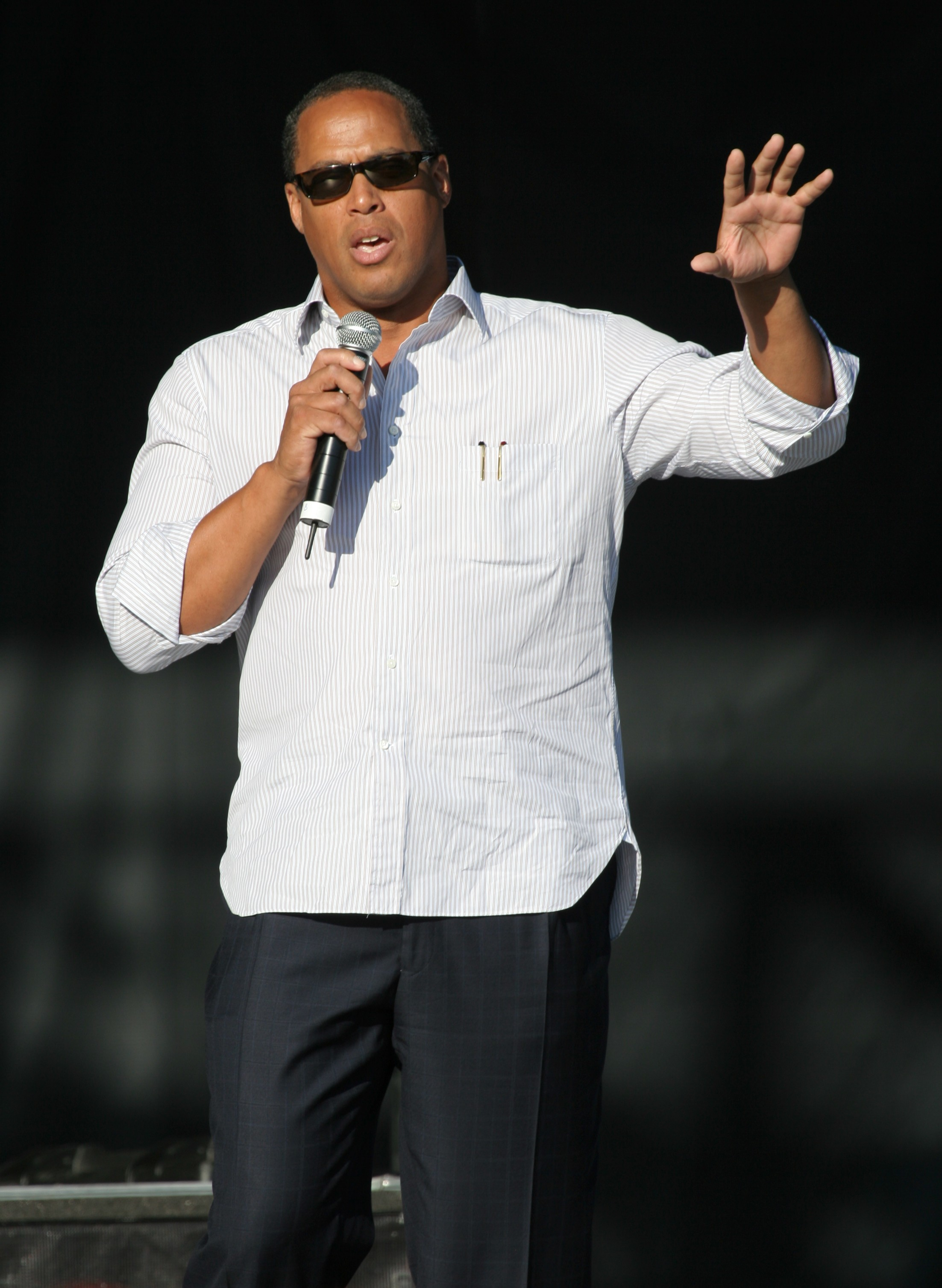 Football quarterback Don McPherson, speaking at a pep rally for the Syracuse Orangemen, at the 2009 New York State Fair.